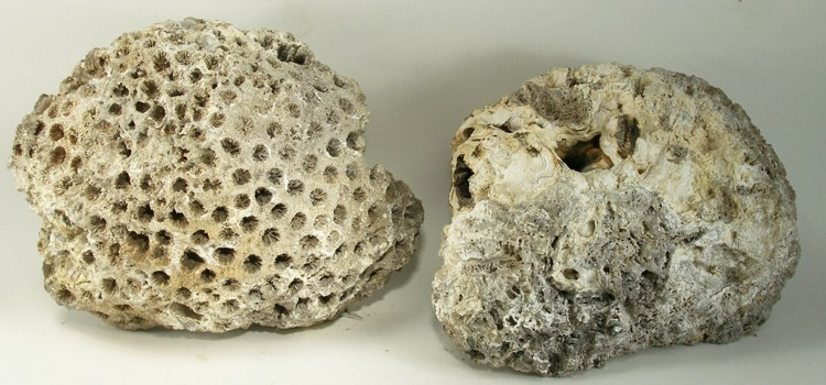 Quartz (Var.: Chalcedony) Locality: Tampa Bay, Tampa, Hillsborough County, Florida, USA (Locality at ) Size: 16.8 x 12.7 x 6.1 cm (largest). A stunning large cabinet pair from a sliced and polished hollow sphere of coral - you can clearly see the pattern on the outside - that has been replaced or filled inside with botryoidal chalcedony. The lustrous botryoids have a gorgeous variety of color. They look like pearls. The hole in one side is really interesting. This is one of those unusual cases where biology meets mineralogy. This specimen is from the Hauck Collection.